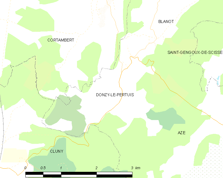 Map of French municipality